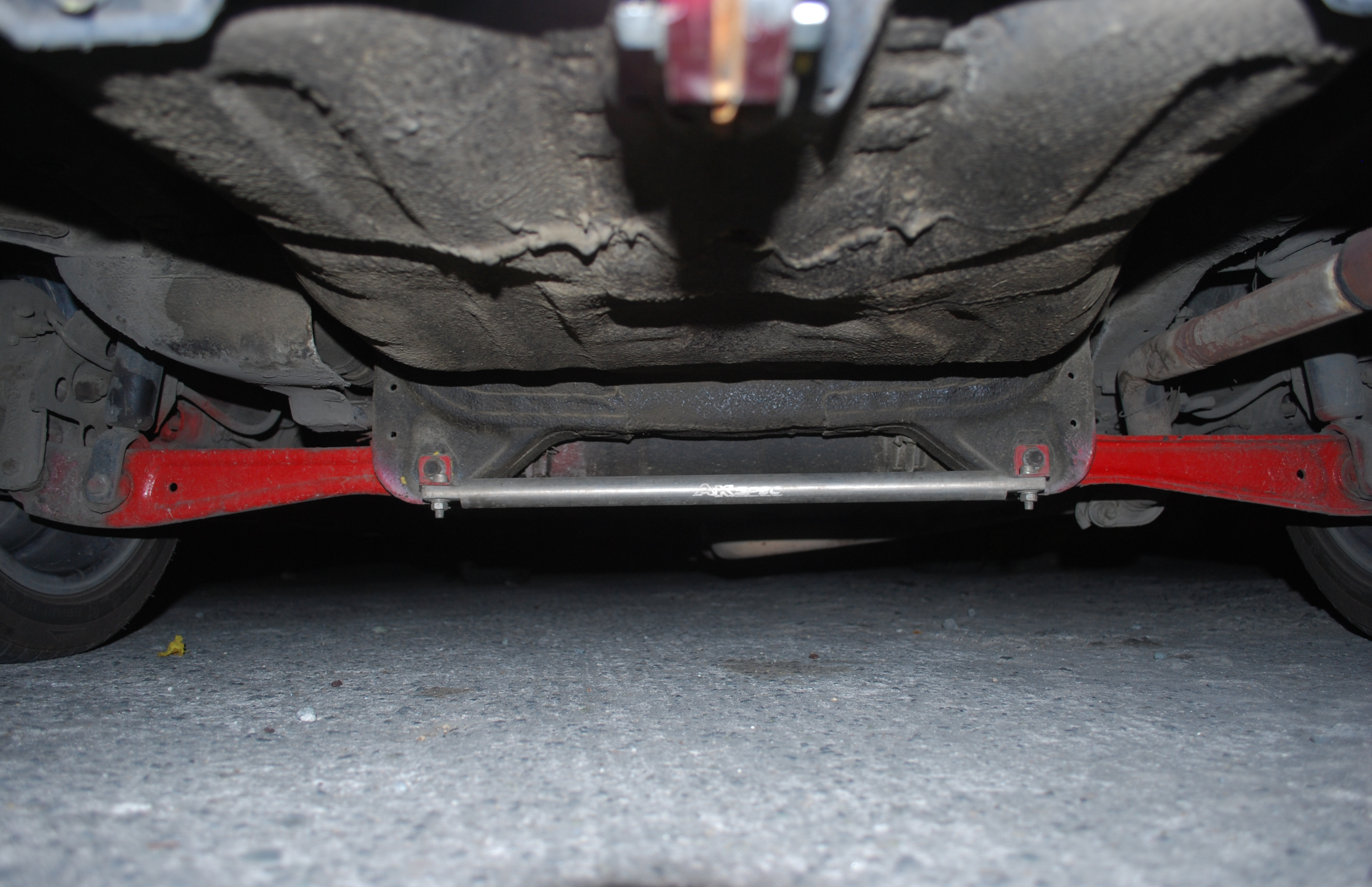 Lower tie bar mounted on the rear subframe of a sedan.